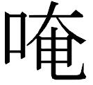 ॐ Aum in Chinese 唵